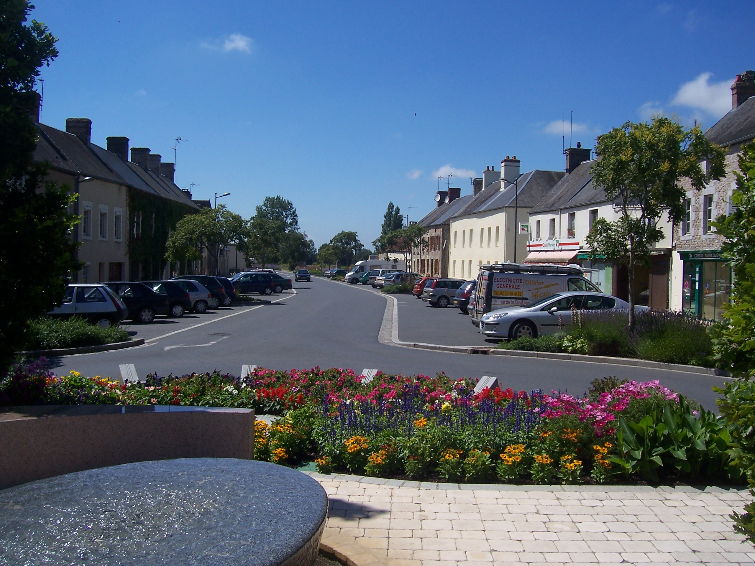 Own work - the small town of Lessay in Manche, France. Created on 18/07/07